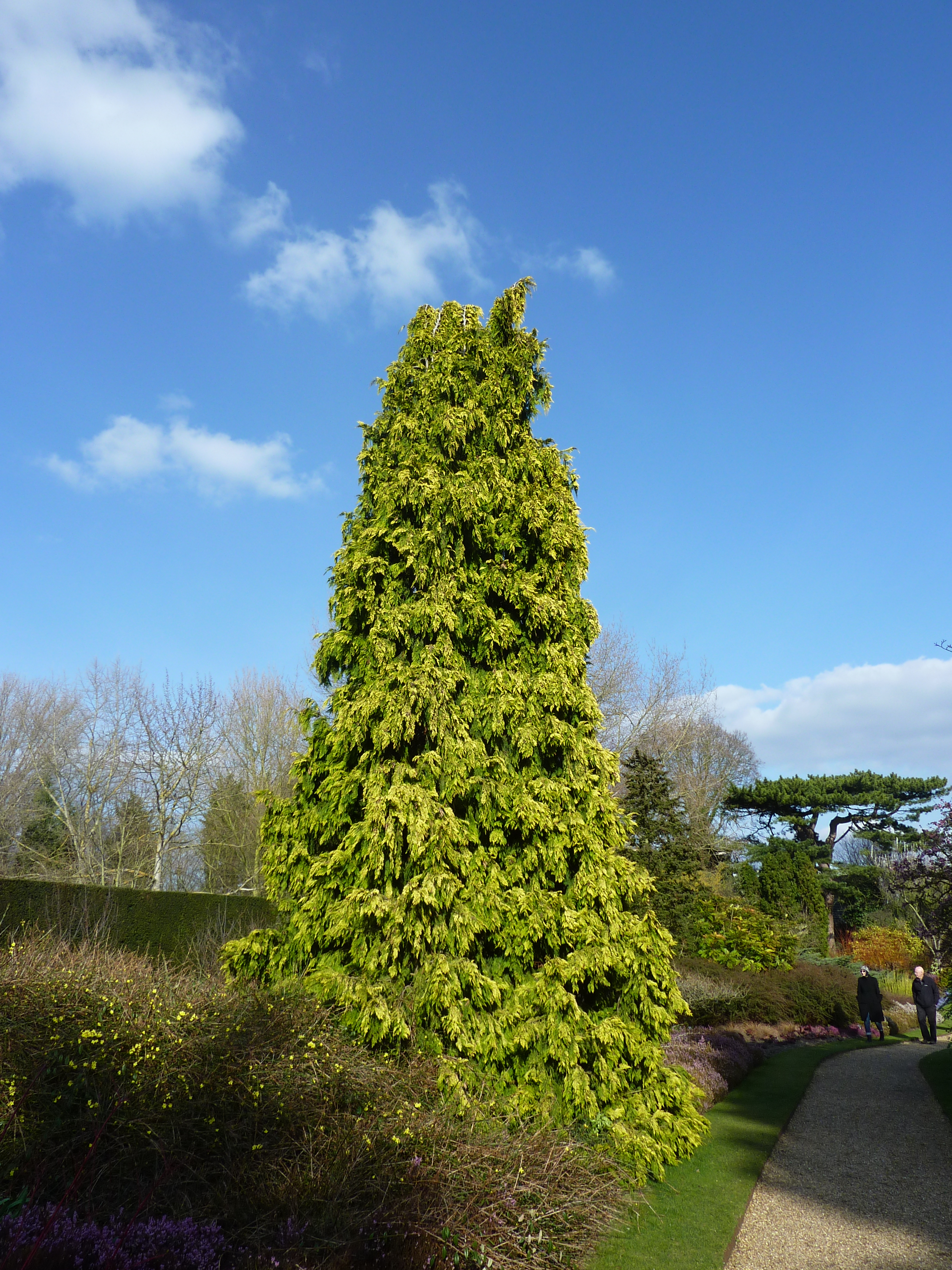 Taken in the Cambridge University Botanic Garden.